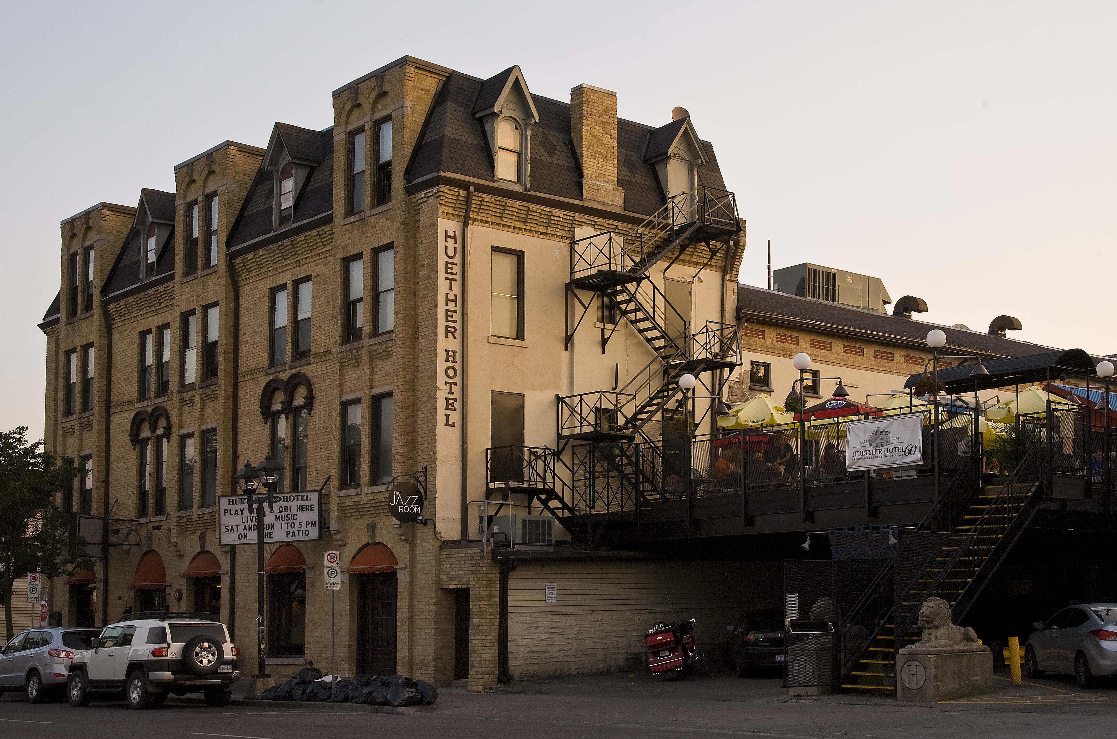 The Huether Hotel, located at 59 King Street North is situated at the northwest corner of King and Princess Streets in the uptown area of the City of Waterloo. The property consists of a four-storey brick and stone hotel, the original portion of which was constructed in 1855, with additions in 1870 and 1880. Said to be the first brewery in Waterloo Region